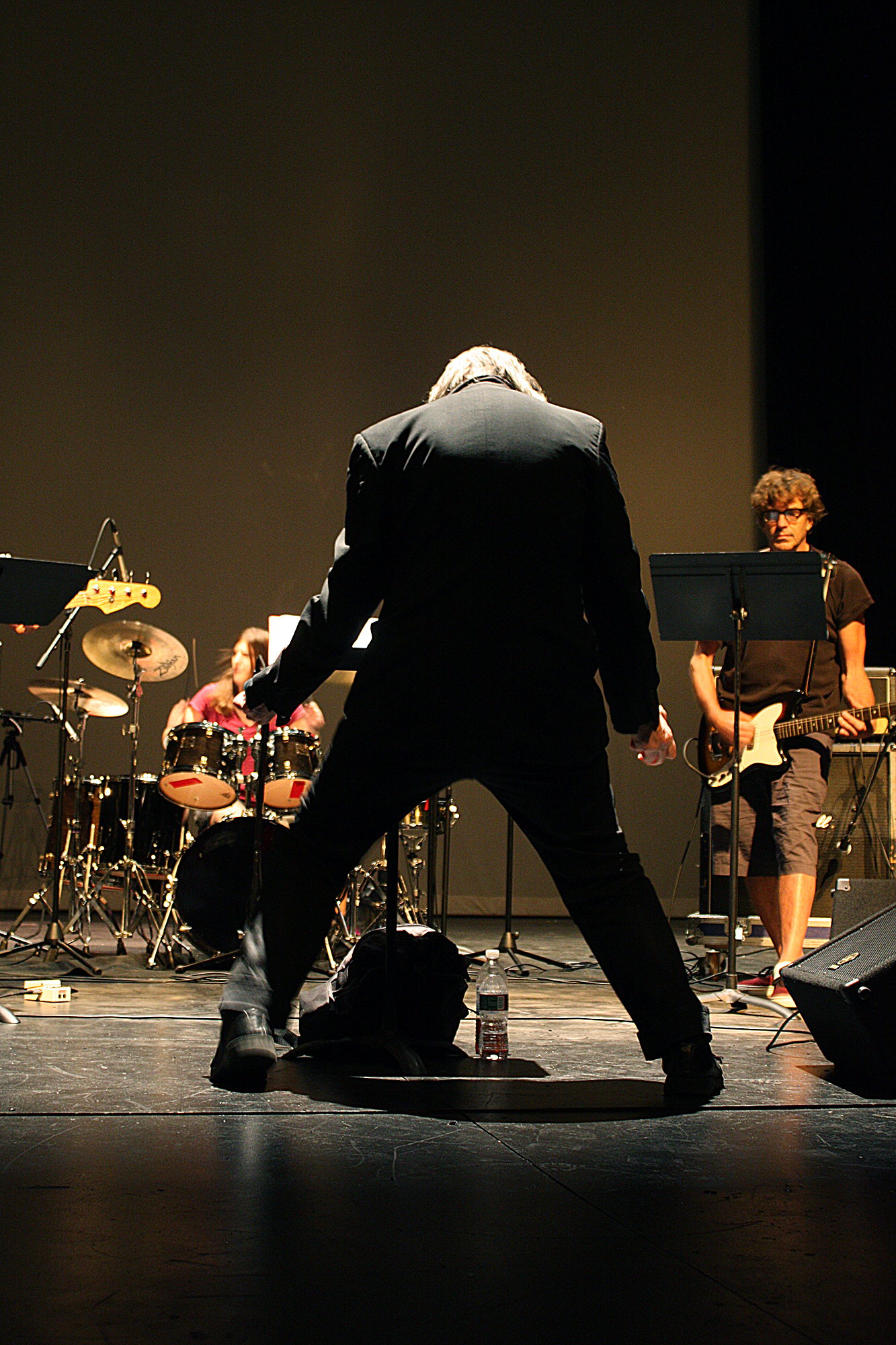 Glenn Branca conducting the Glenn Branca Ensemble in 2012. Sonic Circuits Festival, Atlas Performing Arts Center, Washington, D.C.